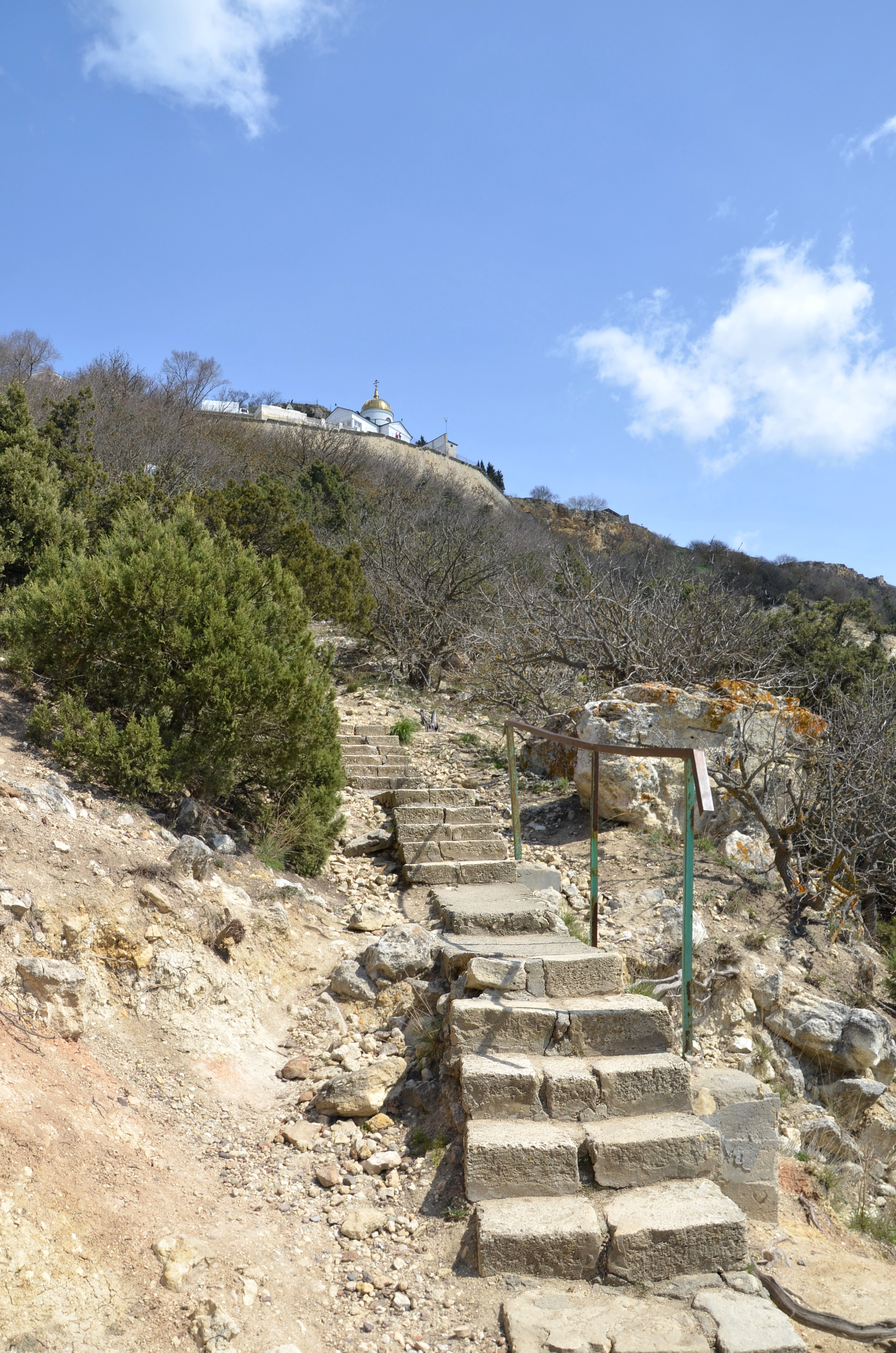 Fiolent monastery stairs, Sevastopol